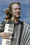 Local call number: JJS0512 Title: Lois Duncan Steinmetz playing the accordion aboard the shantyboat Lazy Bones Date: ca. 1947 General Note: The Steinmetz family on a trip upriver between Ft. Myers and Clewiston on the Caloosahatchee River. Physical descrip: 1 transparency - col. - 5 x 4 in. Series Title: Joseph Janney Steinmetz Collection Repository: State Library and Archives of Florida, 500 S. Bronough St., Tallahassee, FL 32399-0250 USA. Contact: 850.245.6700. Persistent URL